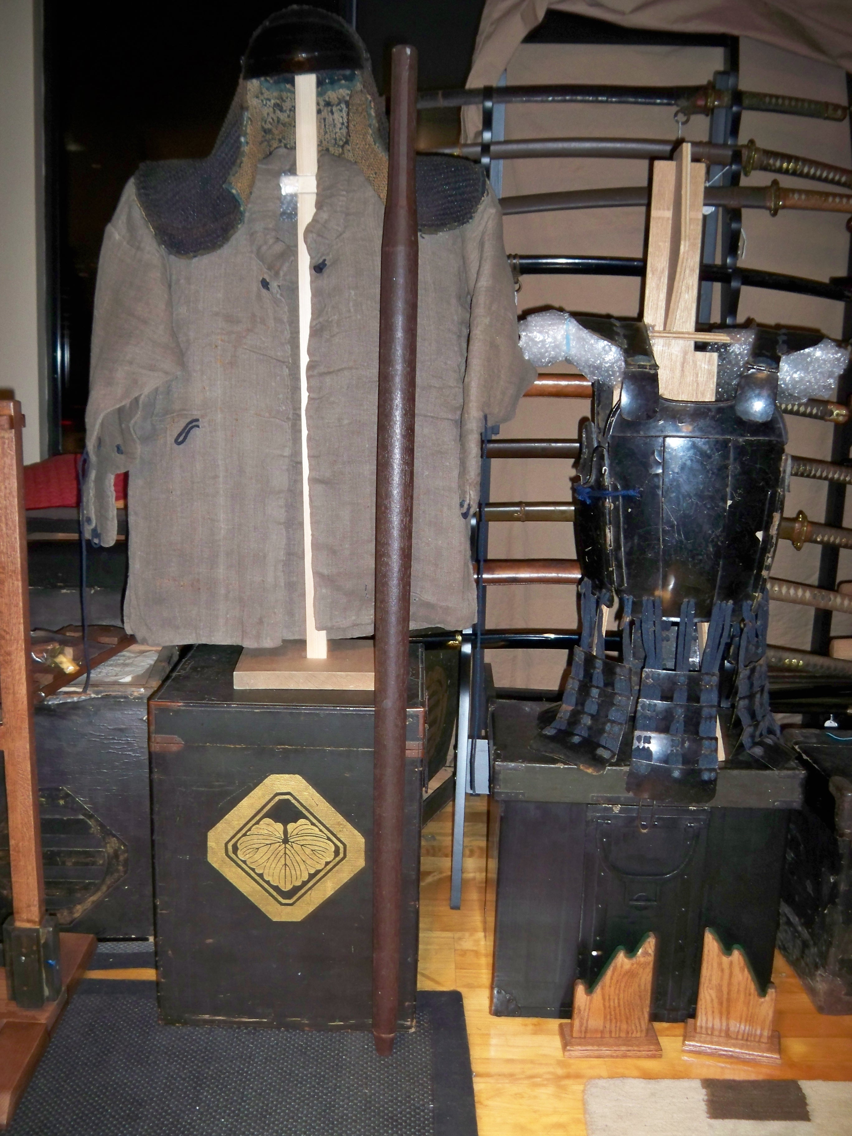 Japanese bō, 4'8" tall and 6" around, made in the shape of a large walking stick.